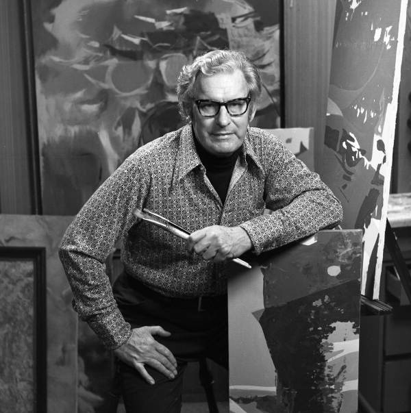 Additional metadata at photo site